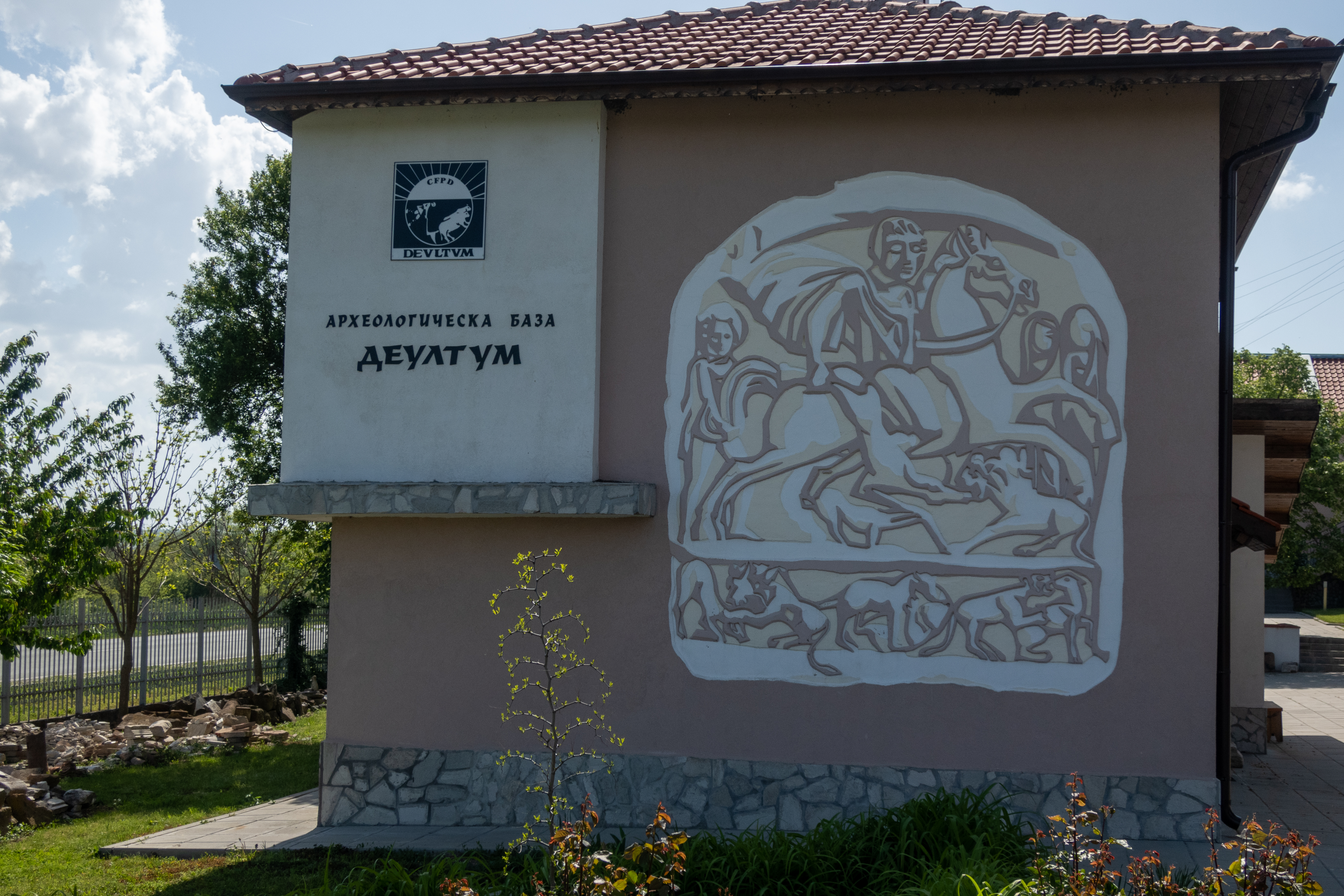 Roman town of Deultum, village of Debelt, Sredets Municipality, Burgas Province, Bulgaria